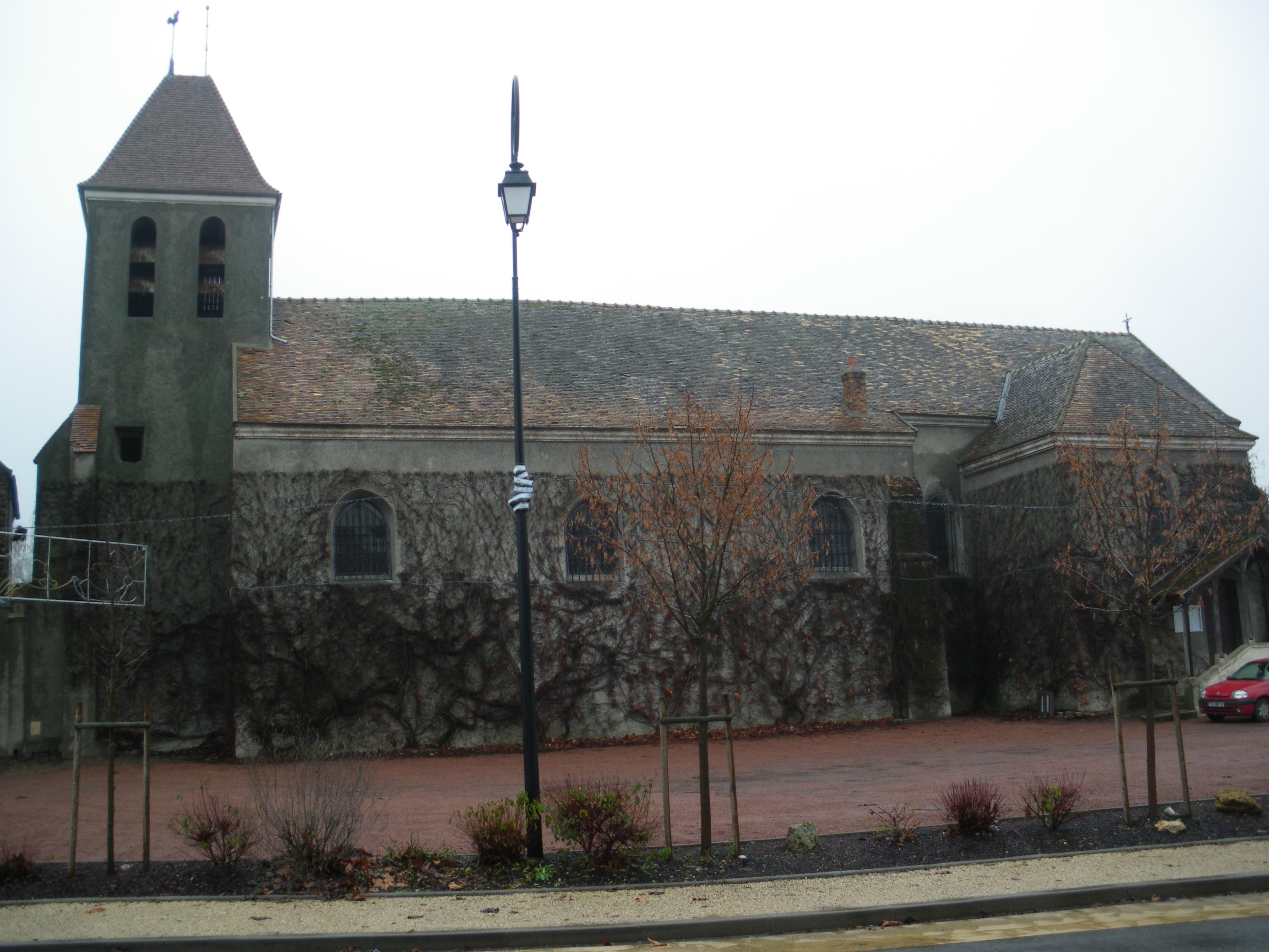 Fontenay lès Briis Church